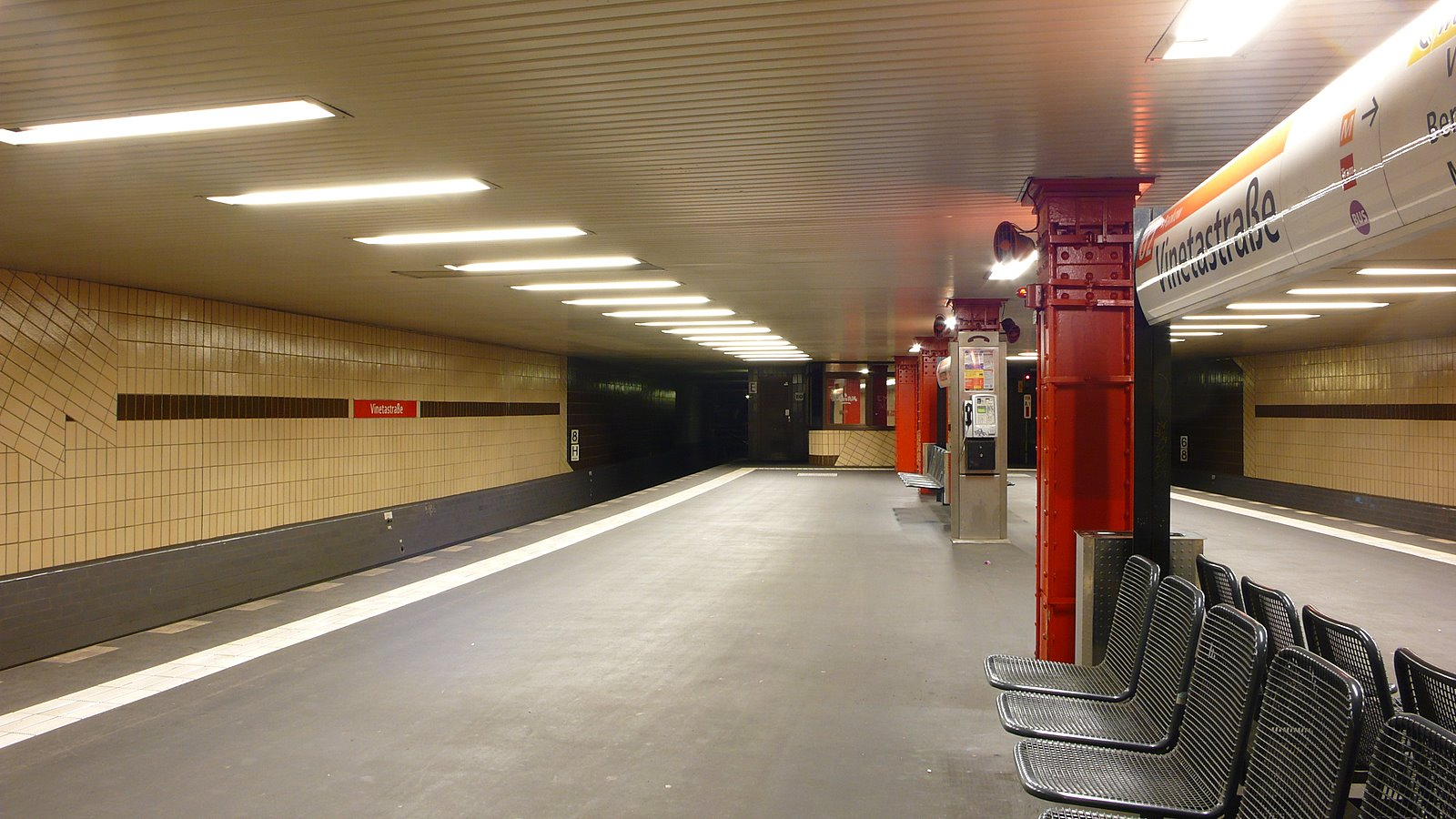 Platform of Vinetastraße U-Bahn station (Line U2) in Berlin, Germany